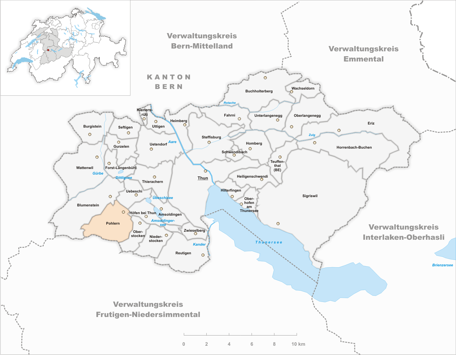 Municipality Pohlern